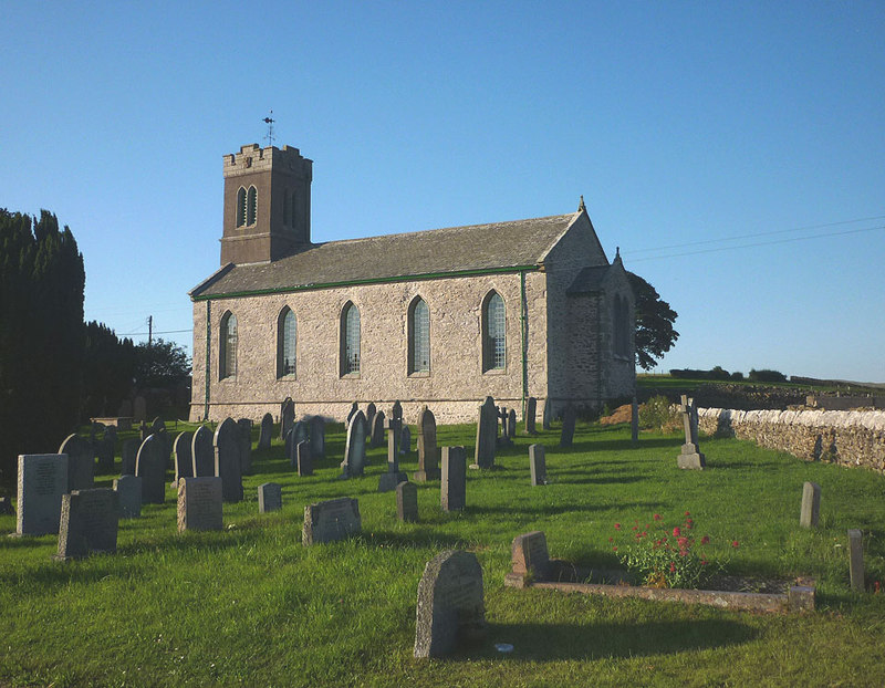 Photograph of St Stephen's Church, New Hutton, Cumbria, England